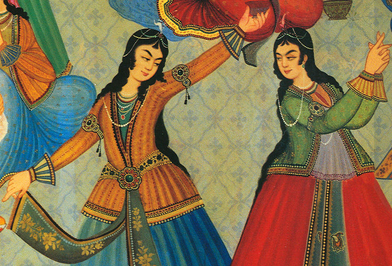 Persian Women dancing. From a wall painting at "Hasht Behesht Palace" (Palace of 8 heavens), Isfahan, Iran.